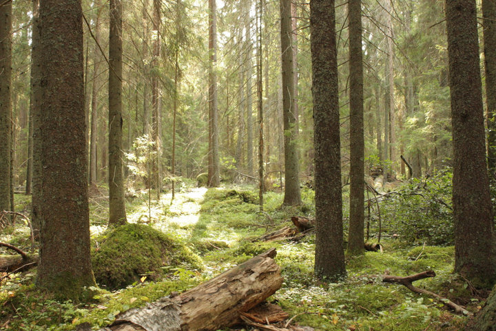 Old forest in Liesjärvi National Park, Finland